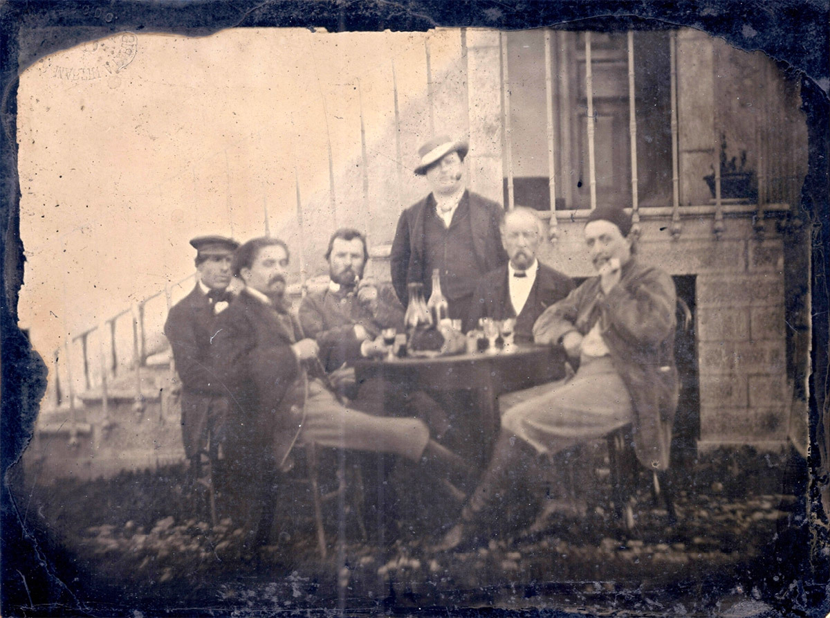 Thought to be Vincent van Gogh (third from the left, with pipe) in conversation with Paul Gauguin, Émile Bernard, Félix Jobbé-Duval. André Antoine is standing between them. Anonymous photograph, 1887.